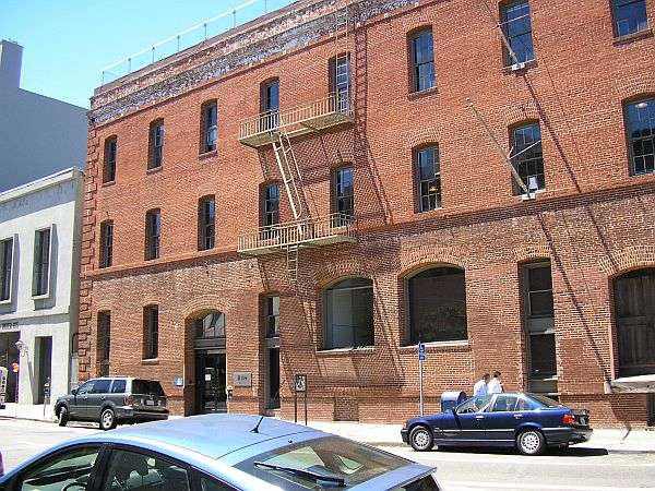 Linden Lab Headquarters, 945 Battery Street, San Francisco